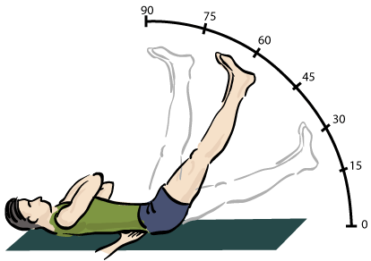 The picture shown is a straight leg test that is sometimes used to help diagnose a herniated lumbar disc.